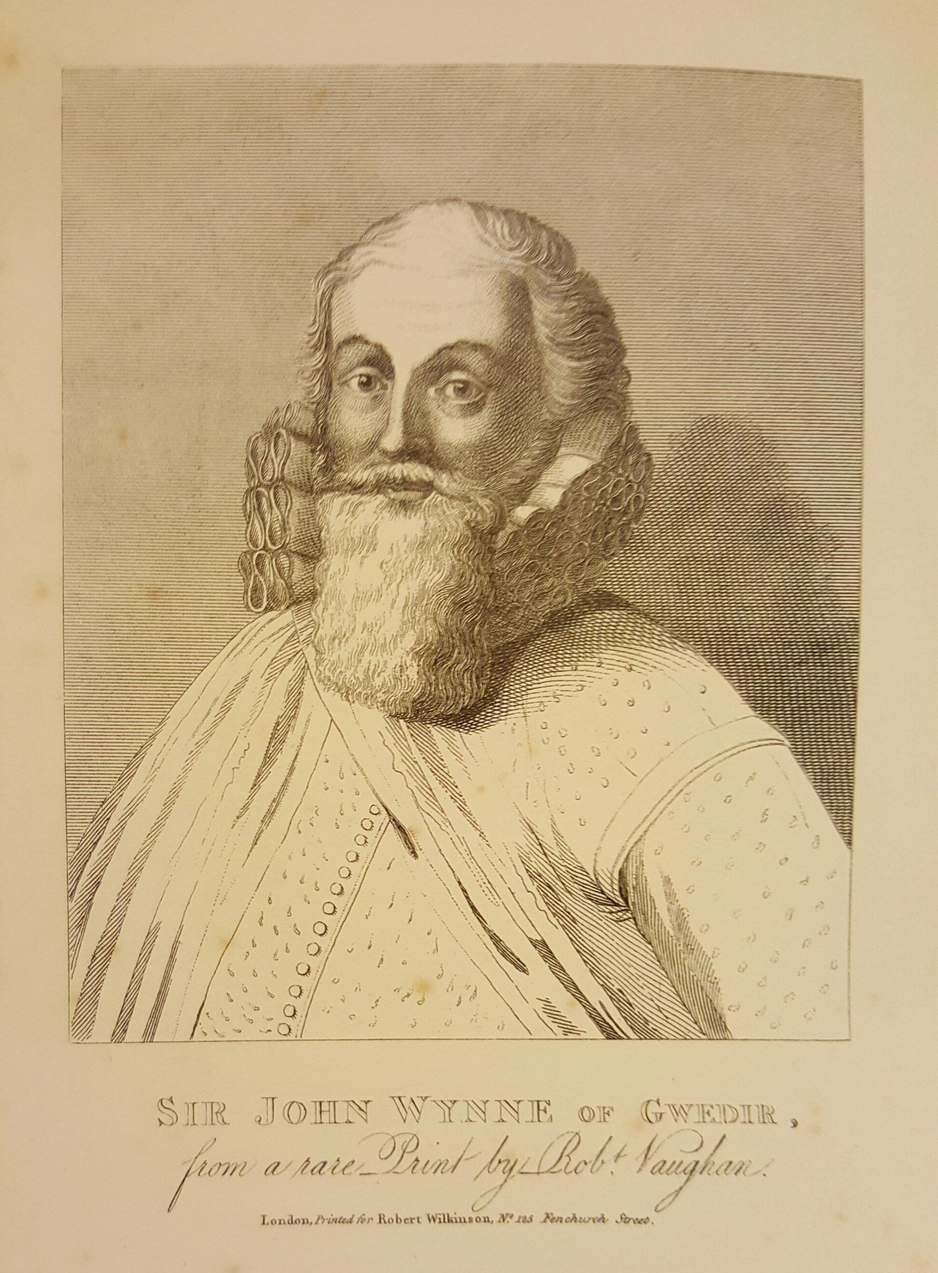 Portrait of Sir John Wynne (also known as John Wynn) from the book "History of the Gwydir family"